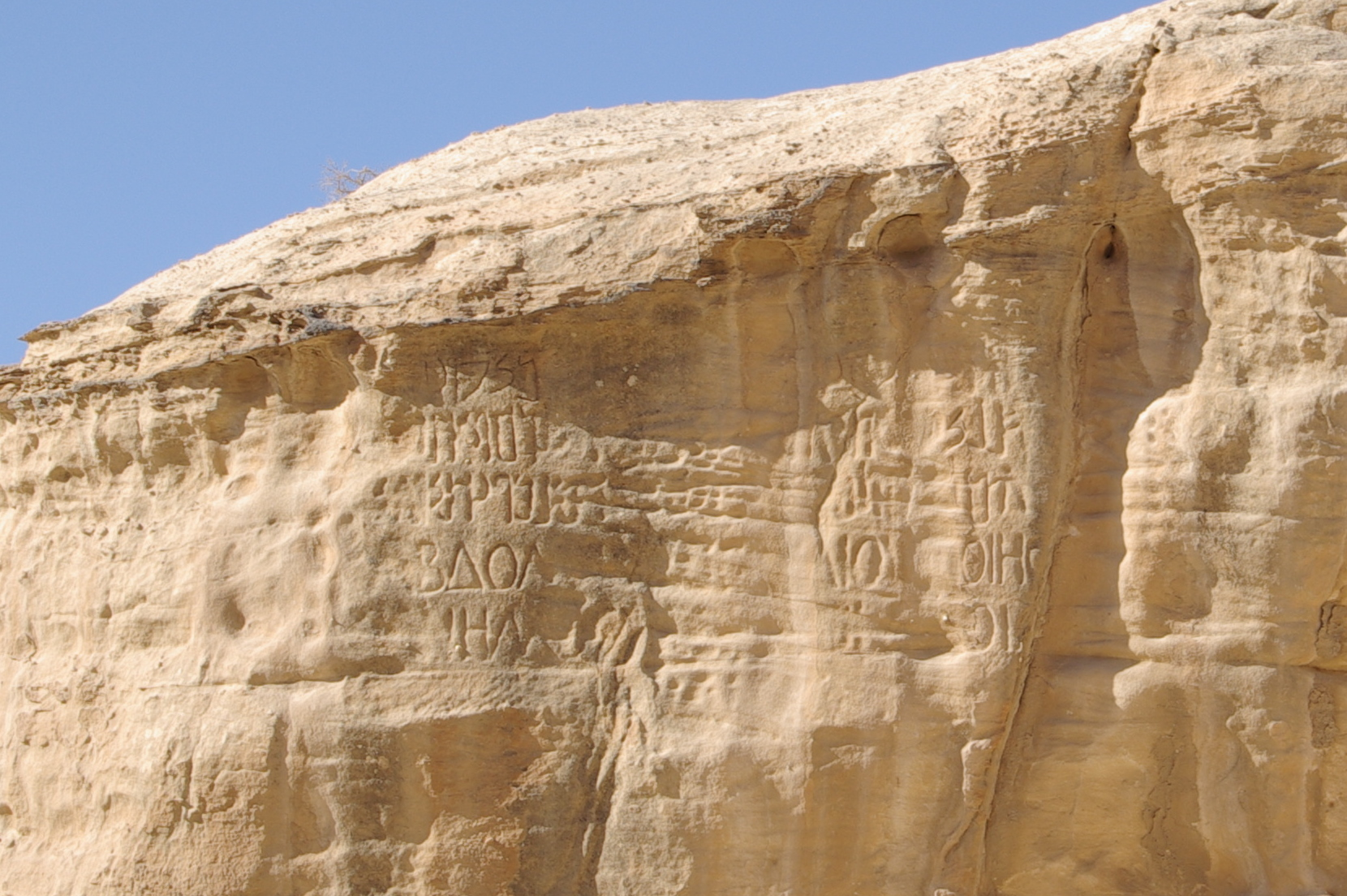 Petra, inscription in the rock